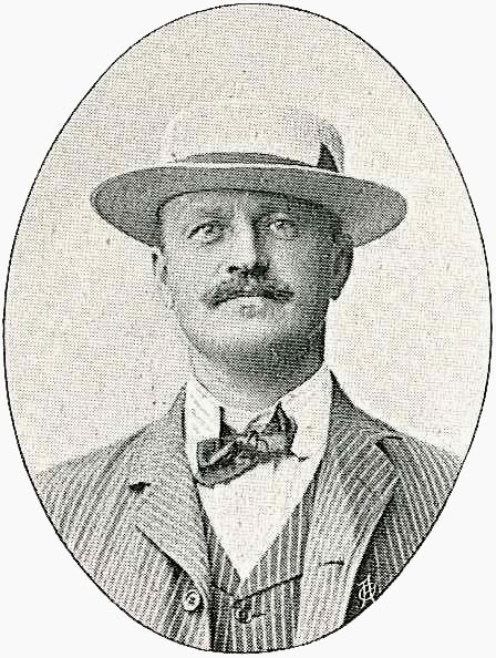 Carl Axel Trolle d.y. (1862-1919), Swedish nobleman, jurist, farmer and member of parliament.